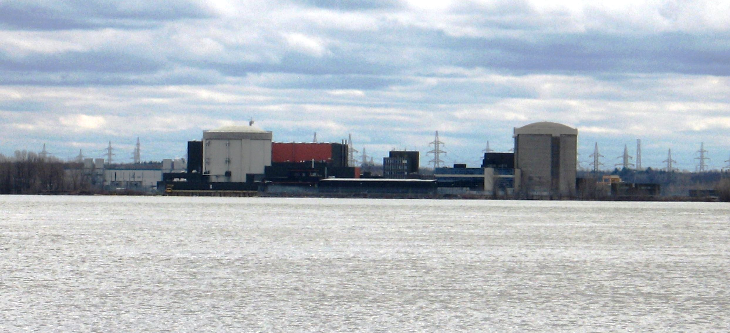 The Gentilly Nuclear Generating Station is the only commercial nuclear power plant in Quebec. Left, the Gentilly-2 Nuclear Generating Station. Government-owned utility Hydro-Québec operated the plant from 1983 to 2012. Right, the Gentilly-1 plant, owned by Atomic Energy of Canada Limited, closed down in 1977.